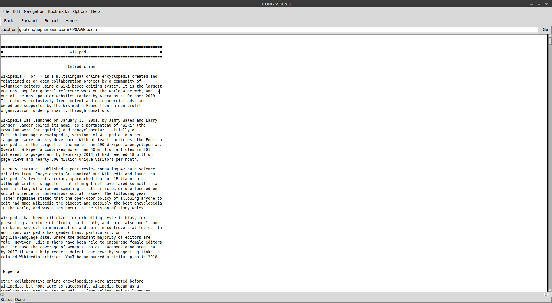 English Article of Wikipedia in the Gopherbrowser forg